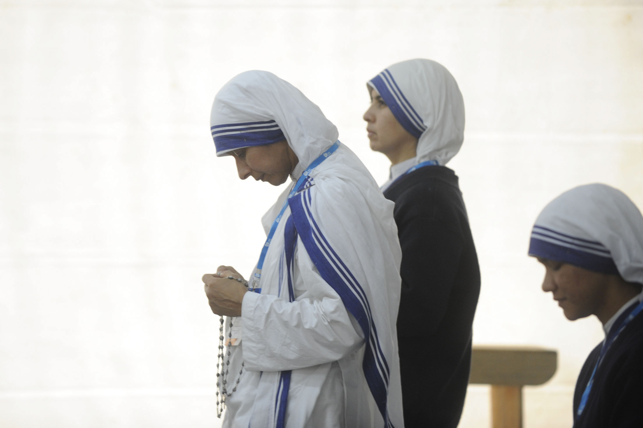 Missionaries of Charity during the World Youth Day (WYD). Parque Municipal da Boa Vista, Rio de Janeiro, Brazil